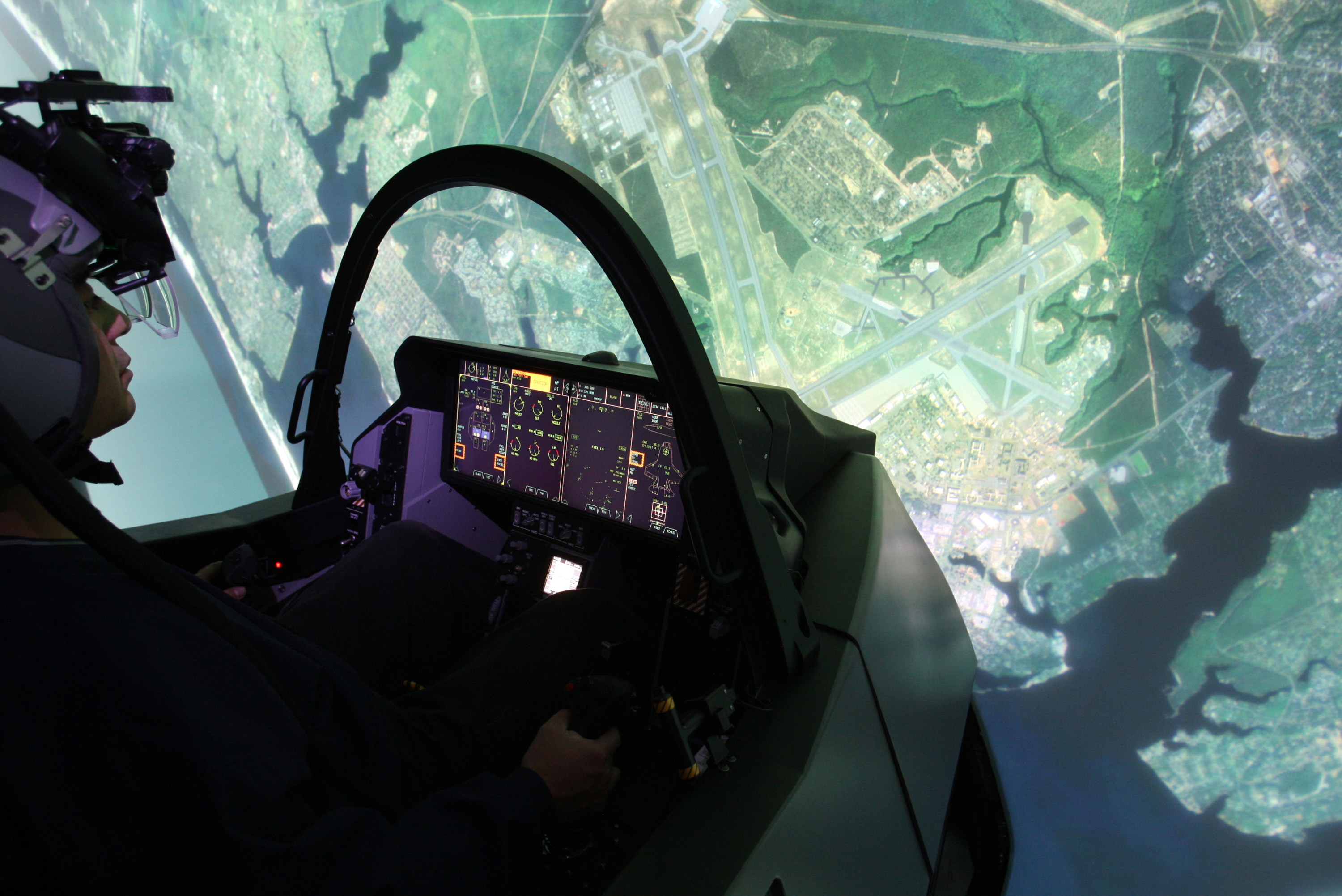 Pilots in Eglin Air Force Base, Florida, use Full Mission Simulators as part of their training with F-35s. The F-35 simulators can also be found at Marine Corps Air Station Yuma, Arizona, where Marine Fighter Attack Squadron (VMFA) 121 trains. The F-35 Full Mission Simulator accurately replicates all sensors and weapons to provide a realistic mission rehearsal and training environment. (Courtesy photo, Lockheed Martin) Unit: Marine Corps Air Station Miramar / 3rd Marine Aircraft Wing